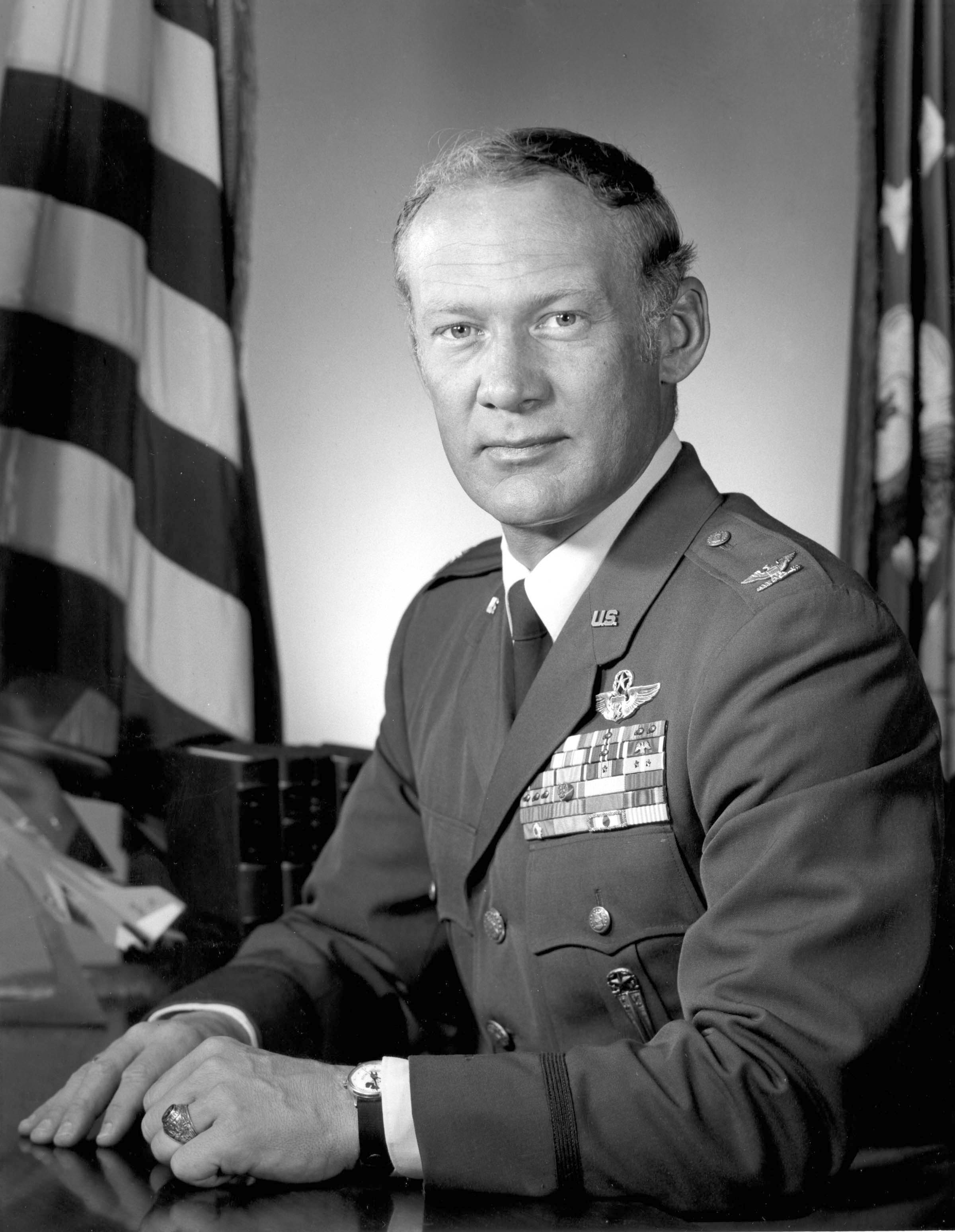 Col. Edwin E. "Buzz" Aldrin, Jr. was lunar module pilot for Apollo XI, July 16-24, 1969--the first manned lunar landing mission. He followed Neil Armstrong onto the lunar surface on July 20, 1969, and completing a 2-hour and 15-minute lunar EVA, he assisted in the collection of lunar surface samples, the deployment of lunar surface experiments, and an extensive evaluation of the life supporting extravehicular mobility unit. Completing man's first ascent from the lunar surface, Aldrin and Armstrong maneuvered their lunar module to a rendezvous with command module pilot Michael Collins who had remained in lunar orbit in the command module. Note the Mickey Mouse drawing on the sphere of the watch. VIRIN: 020925-O-9999G-009.JPG